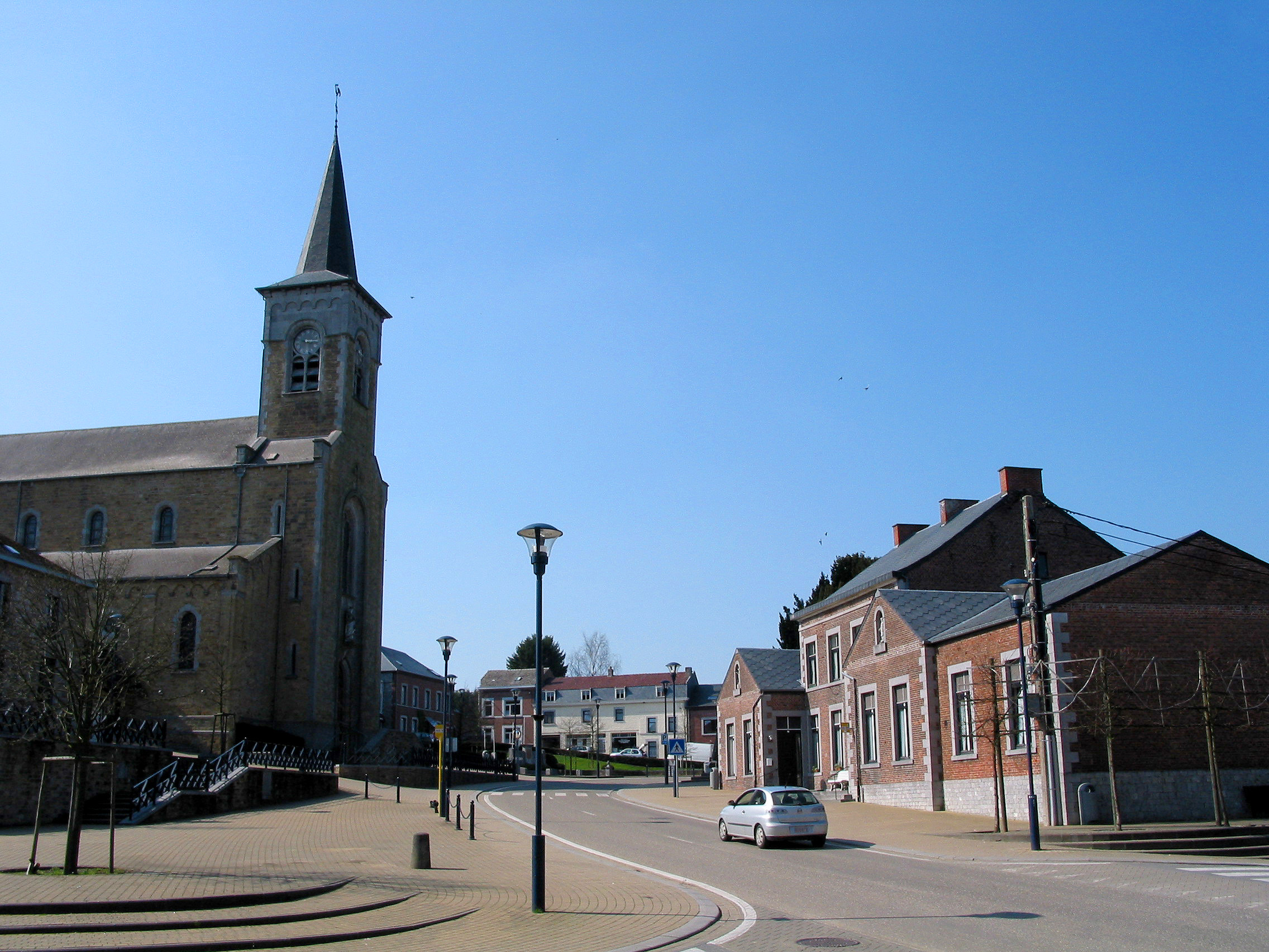 Havelange (Belgium), the St. Martin's church (1860).